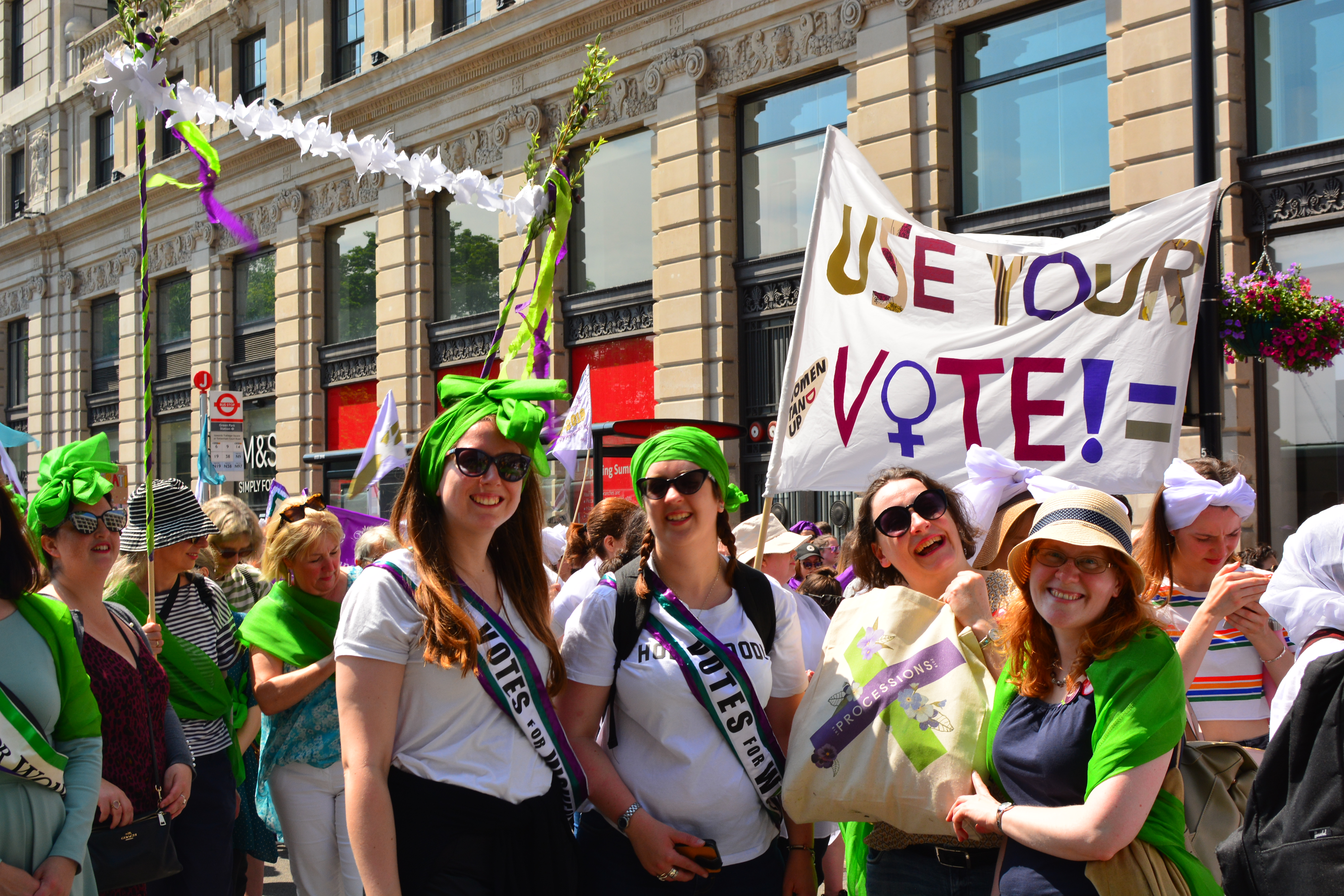 Photograph from Processions (London), giant artwork coordinated by Artichoke as one of the 14-18-Now WWI Centenary Art Commissions.